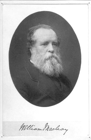 British entomologist William John MacLeay (1820-1891) This is not William Sharp Macleay!!!